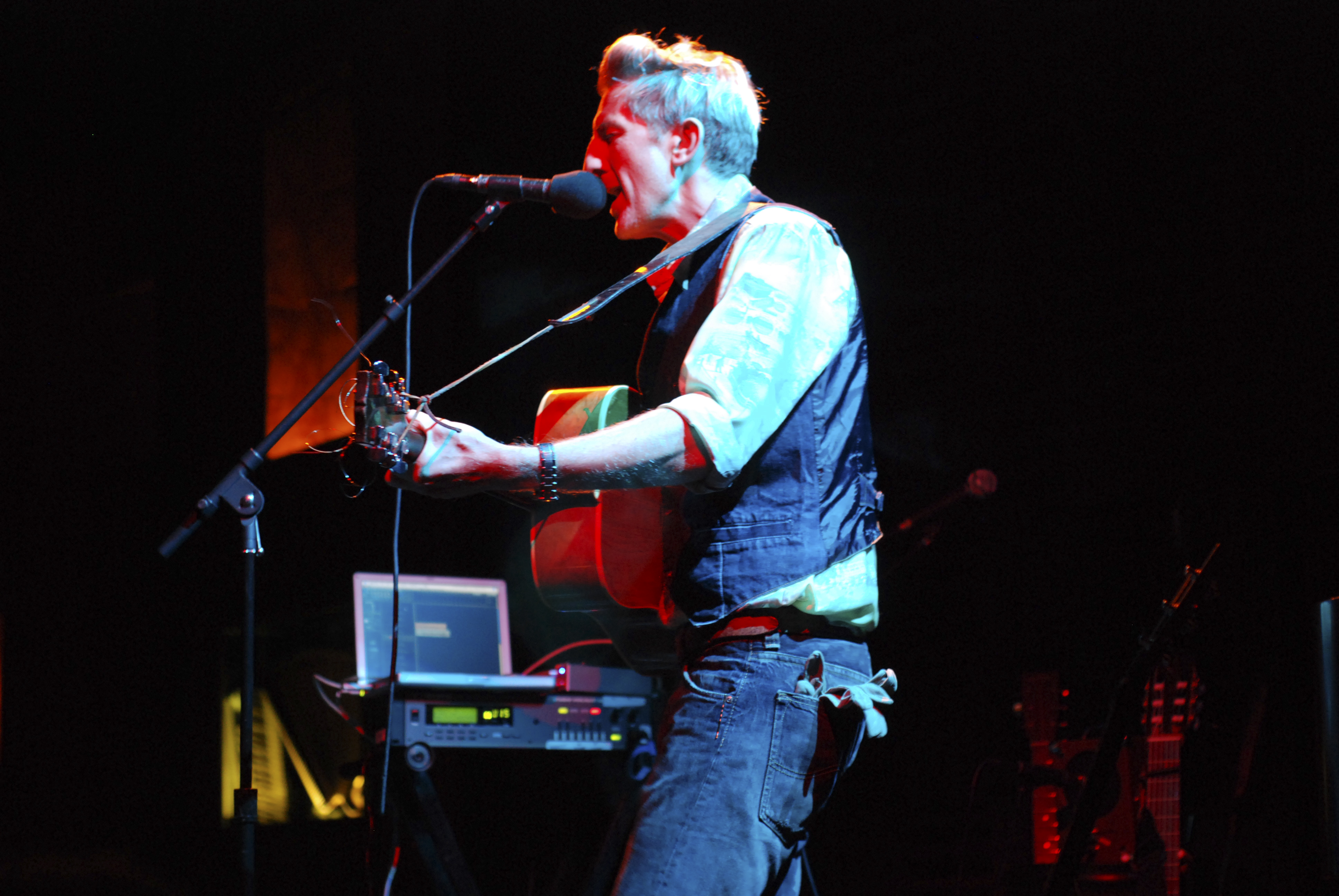 Merz (Conrad Lambert) performing at Joe's Pub, New York City, 17 September 2008.